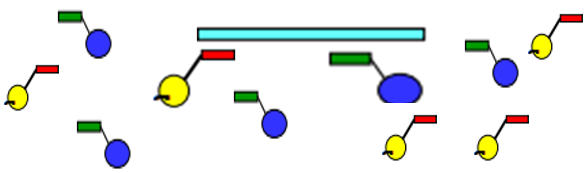 DNA and probes.